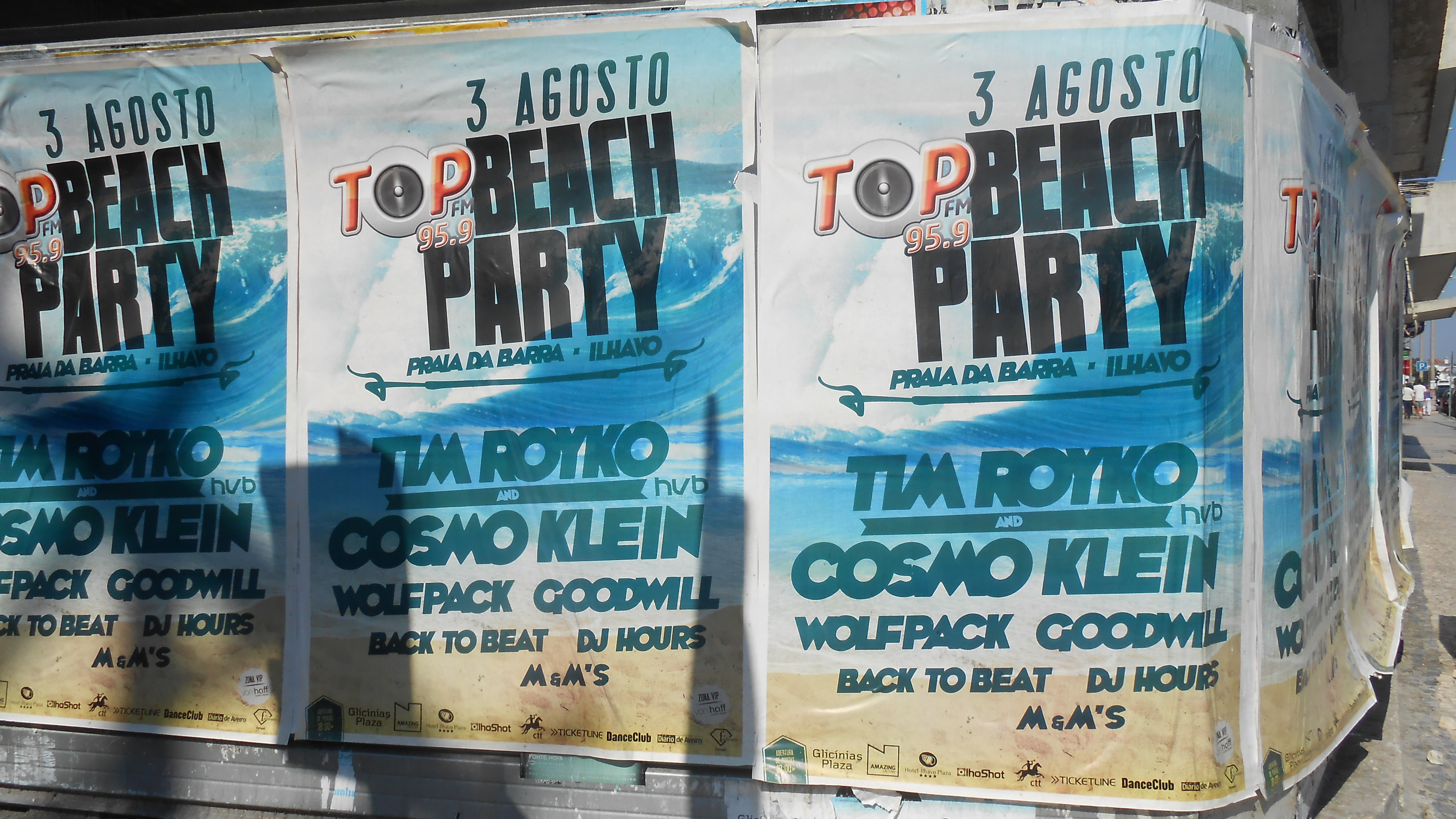 Aveiro street poster for the "Beach Party" festival on august 3, 2013 at the Praia da Barra beach in Ílhavo, Portugal